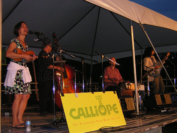 Picture of Rani Arbo and Daisy Mayhem performing at Rootz: The Green City Music Festival sponsored by Calliope: Pittsburgh Folk Music Society in Pittsburgh, Pennsylvania, on July 12, 2008.